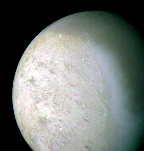 Neptune's moon Triton, the retrograde wonder, seen by Voyager 2 in August 1989. Image Credit: NASA/JPL/Kevin M. Gill